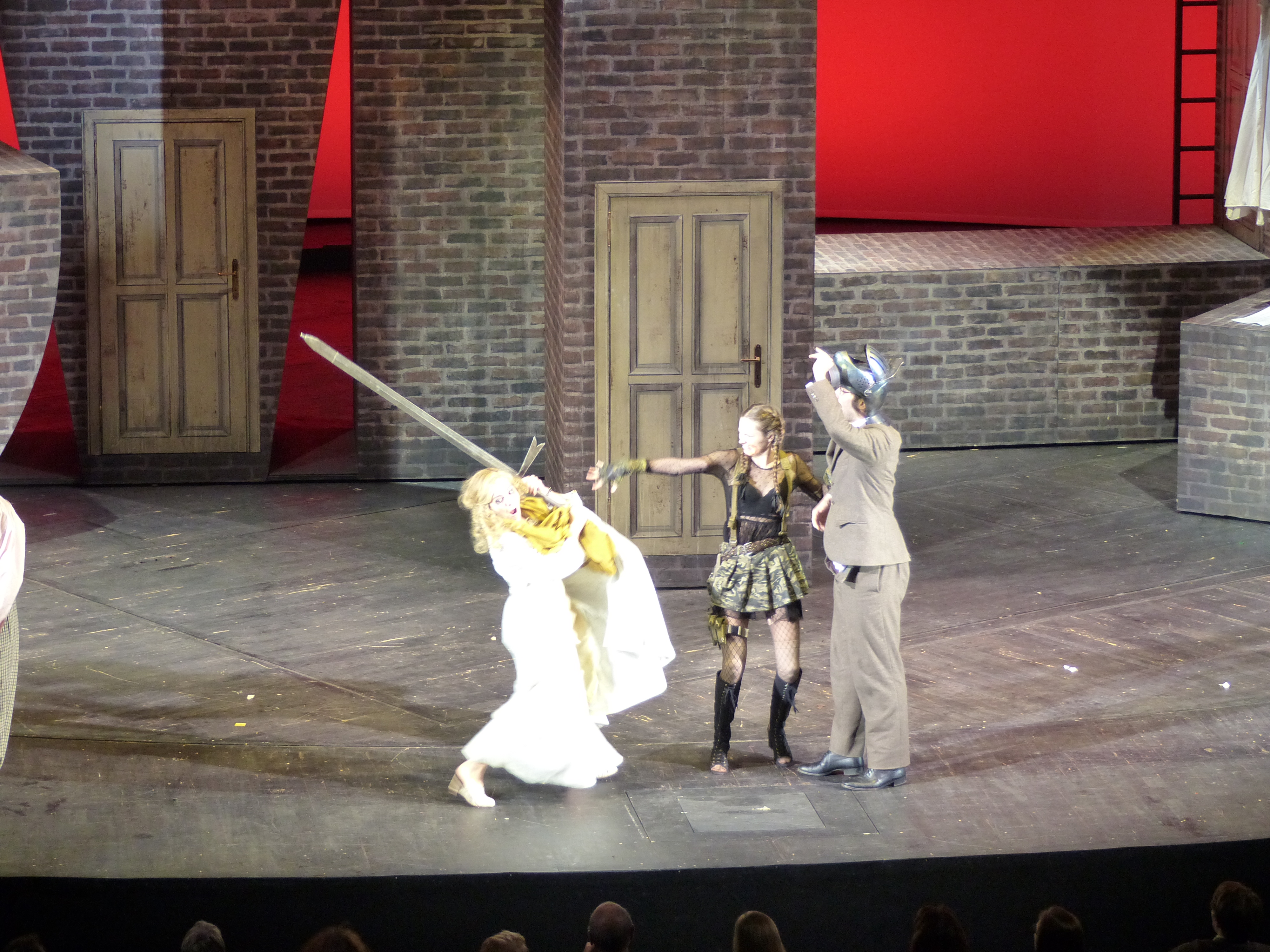 Taken on the 18th of December, 2016. Burgteather, Wien, Central Europe. Pension Schöller - a German comedy play by Wilhelm Jacoby and Carl Laufs which was first performed in 1890. The play was originally performed at Wallner Theatre in Berlin and quickly became a staple of German comic literature. Sources